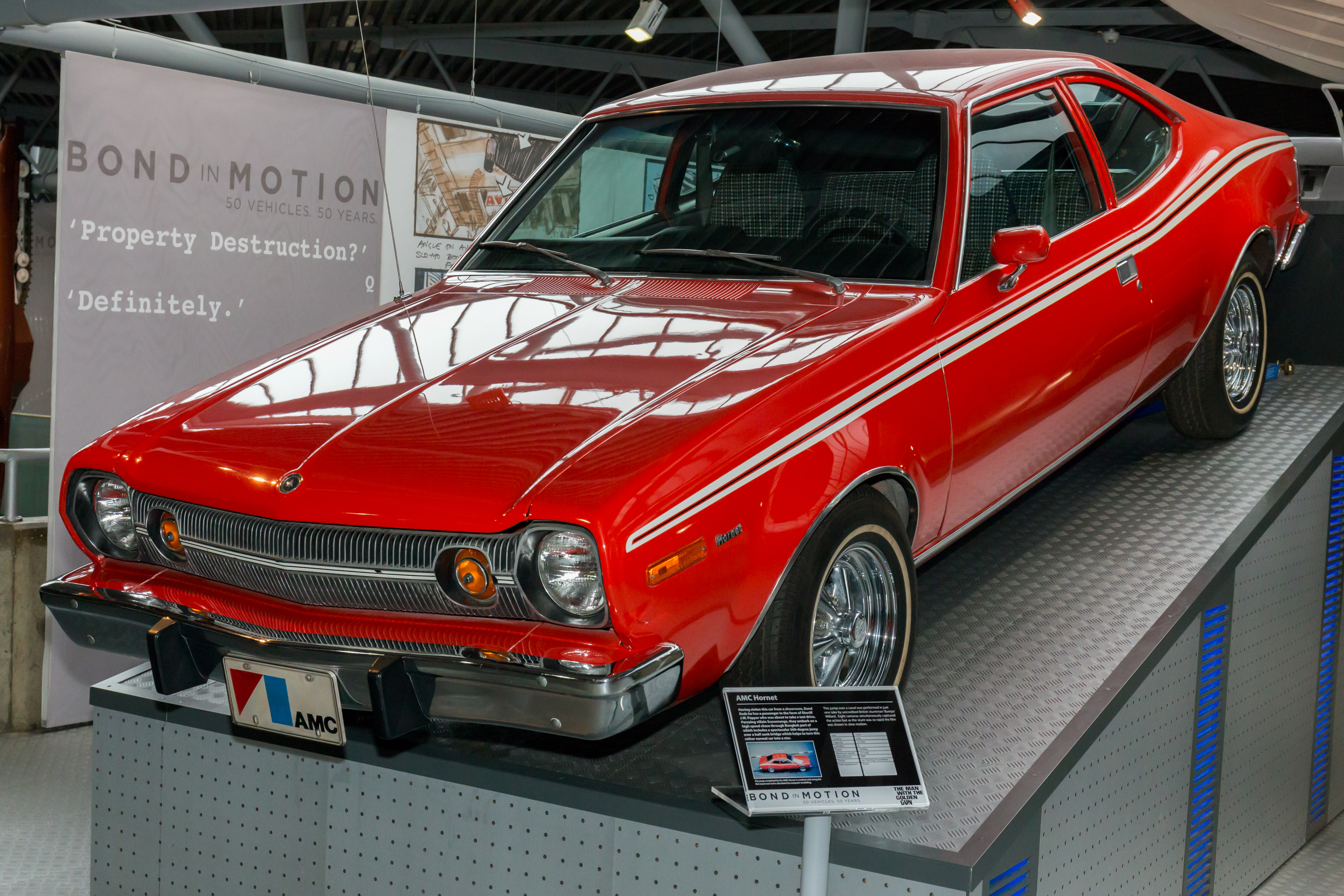 AMC Hornet, from "The Man with the Golden Gun" (1974)